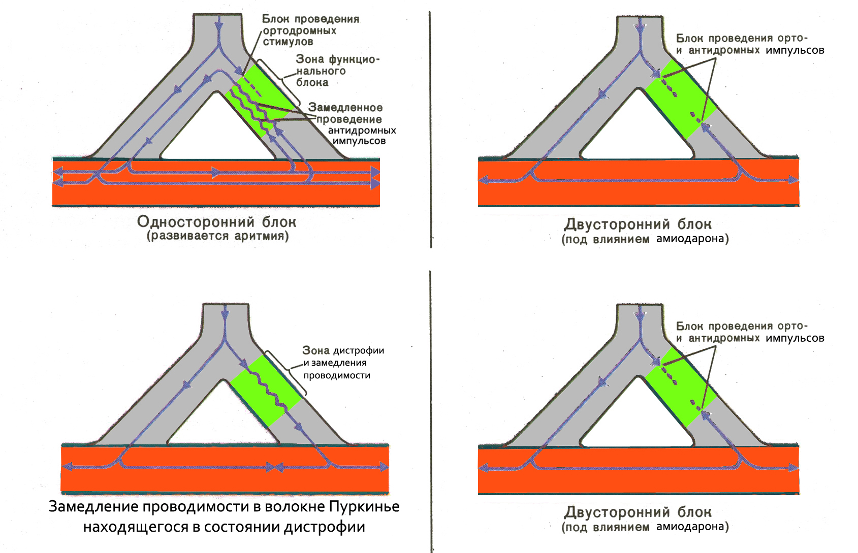 III class antiarrythmic action